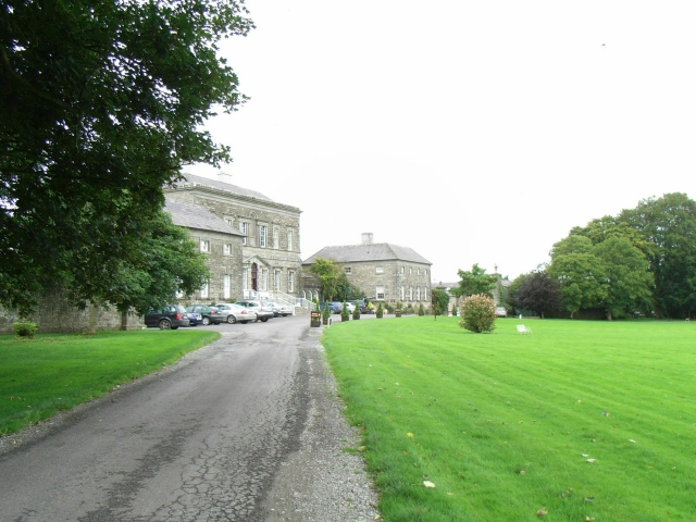 View of Bellinter House, Co. Meath, from the long driveway leading to the house.